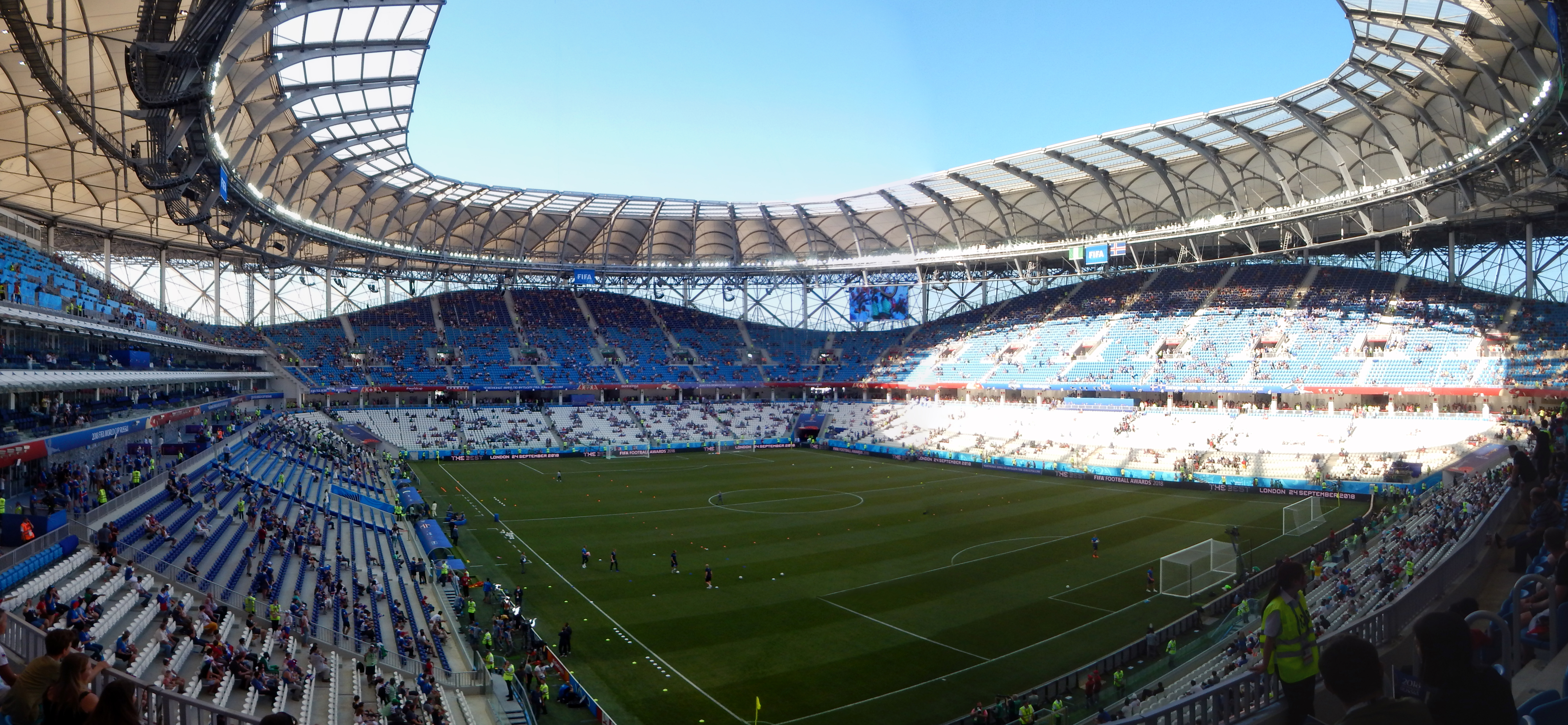 FIFA World Cup 2018, Group D, Nigeria vs. Iceland